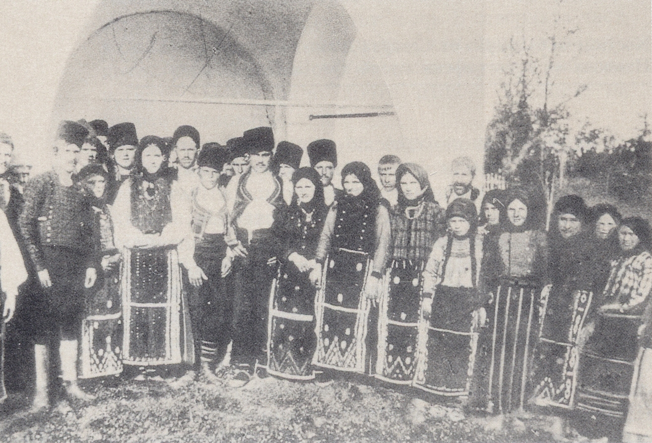 Bulgarians after church mass, village Kasapköy (today Mihai Viteazu, Constanţa), beginning of 20 century